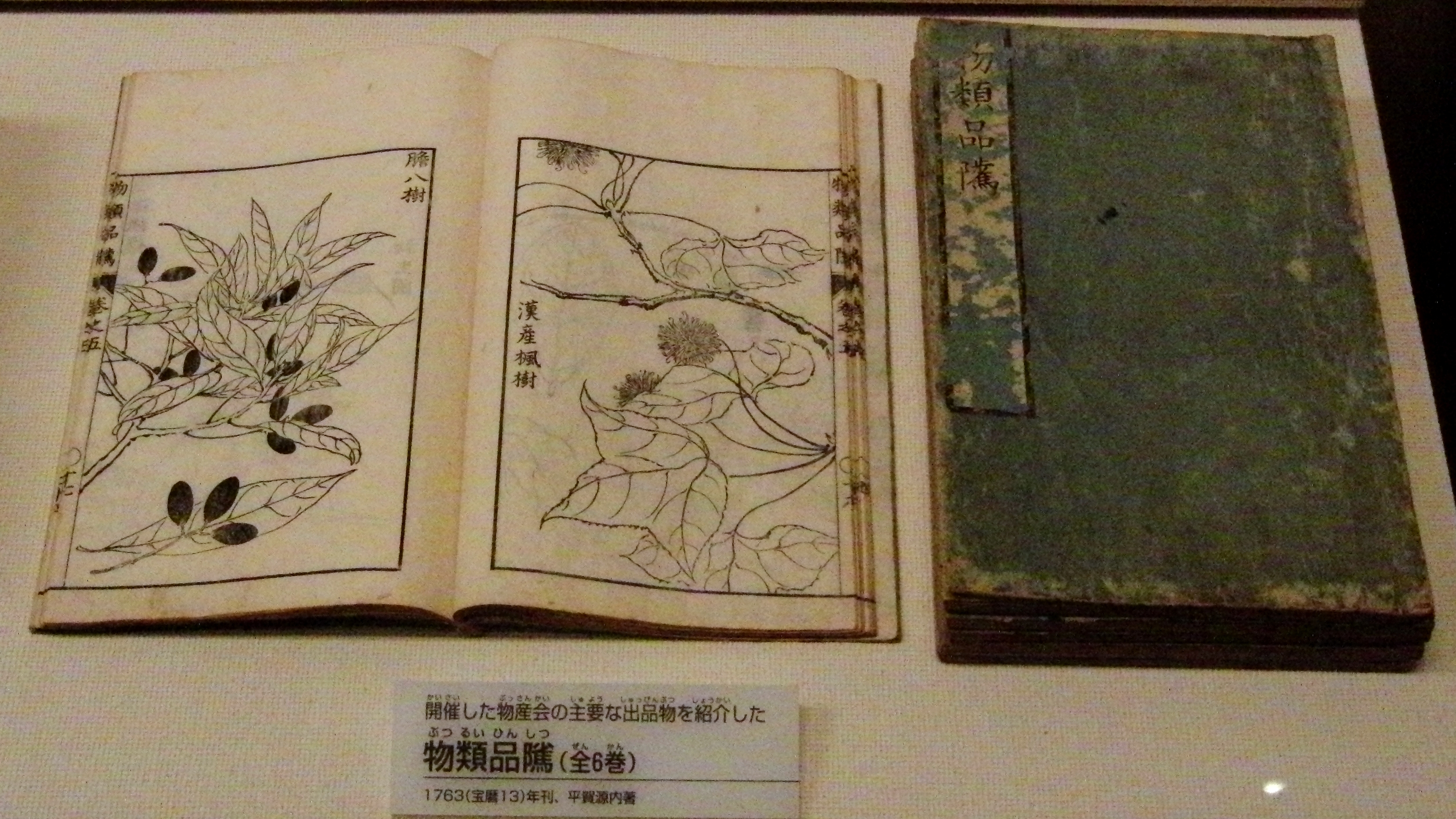 Book of collection of materials named "Butsurui Hinshitsu" written by Hiraga Gennai published in 1763. Exhibit in the National Museum of Nature and Science, Tokyo, Japan.